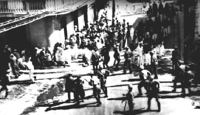 This is a famous historical picture taken of the Ponce Massacre Photo was taken by Carlos Torres Morales, a photo journalist for the newspaper El Imparcial. In accordance with the "Copyright Term and the Public Domain in the United States (January 1, 2009),[1] images published with notice but with no subsequent copyright renewal from 1923 through 1963, are public domain due to copyright expiration. El Imparcial, which went out of service in 1973, could not have renewed its copyright which expired. Therefore, since Puerto Rico fell under US copyright in 1937 as well as today, this would make the Ponce Massacre image public domain. Tony the Marine (talk) 00:08, 13 December 2009 (UTC)